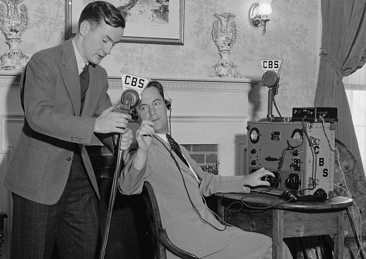 Two CBS engineers set up radio remote in private home, 1937. Original caption: "Engineers prepare for black broadcast. Washington, D.C., Oct. 1. A real fireside chat will be the address of Justice Hugo L. Black to the nation tonight over a coast-to-coast hookup from the home of Claude E. Hamilton in the capital. Radio engineers Jerry Hurlbut and Stanford H. Rose are shown testing the mikes and controls as they set up in the Hamilton living room from where Justice Black will answer the charges that he is a klansman, 10/1/37"